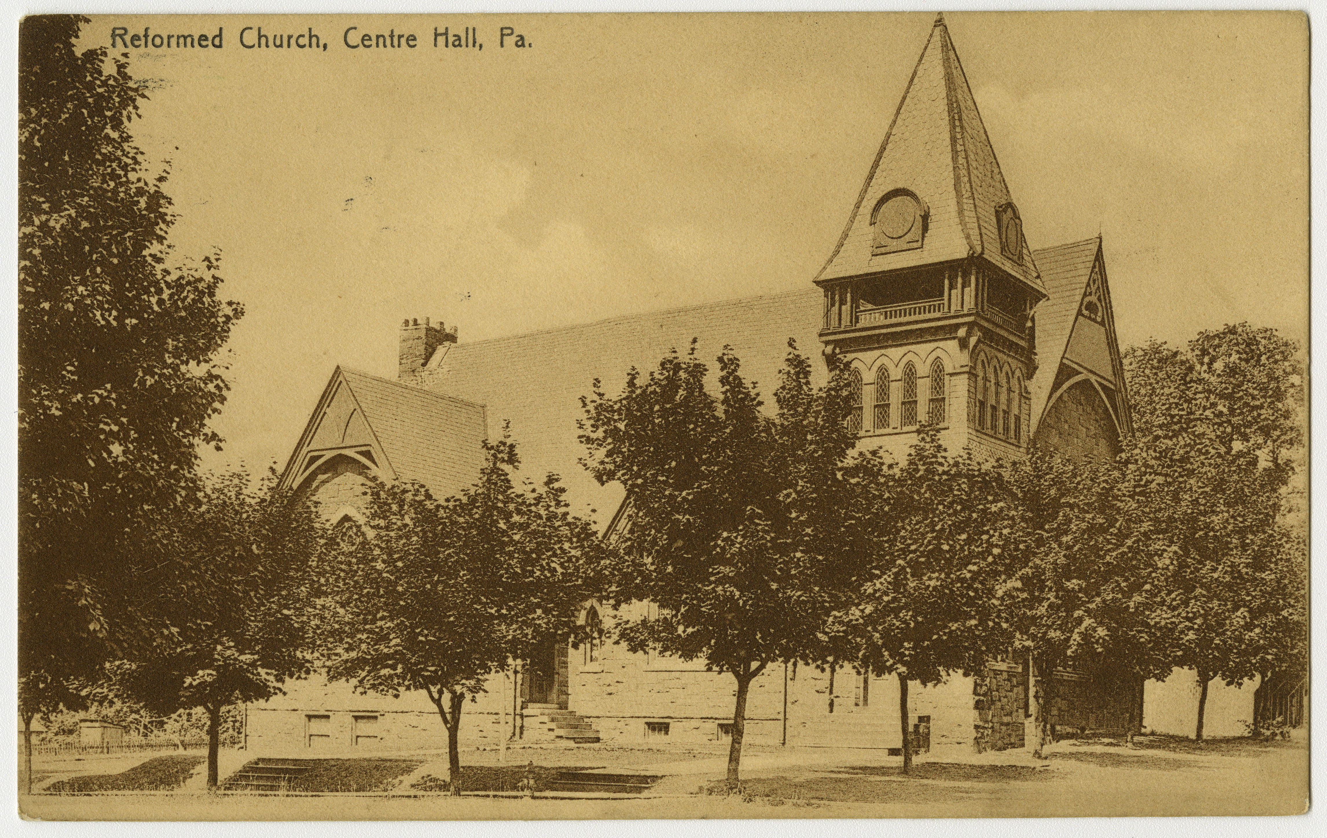 The Reformed Church of Centre Hall, Pennsylvania on a pre-1923 postcard. From RG 428, Postcard Collection, Presbyterian Historical Society, Philadelphia, Pennsylvania. Modern pic at File:Centre Hall, Pennsylvania (6923288672).jpg